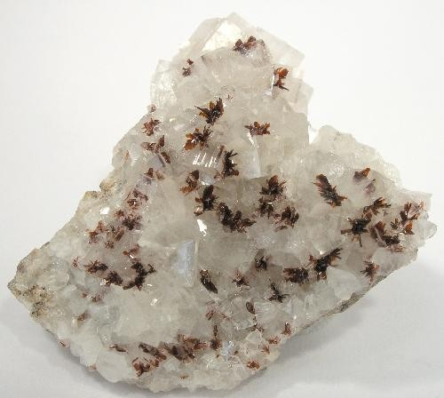 Ruizite, Calcite Locality: N'Chwaning Mines, Kuruman, Kalahari manganese fields, Northern Cape Province, South Africa (Locality at ) Size: 4 x 3.8 x 1.3 cm. A superb specimen of beautiful bladed crystals of the rare silicate Ruizite. The crystals, up to about 2 mm in length, grow in flower-like clusters liberally spread among the gemmy Calcite rhombs. The gemmy Ruizite blades have a deep cinnamon color and excellent luster. Ex. Charlie Key.